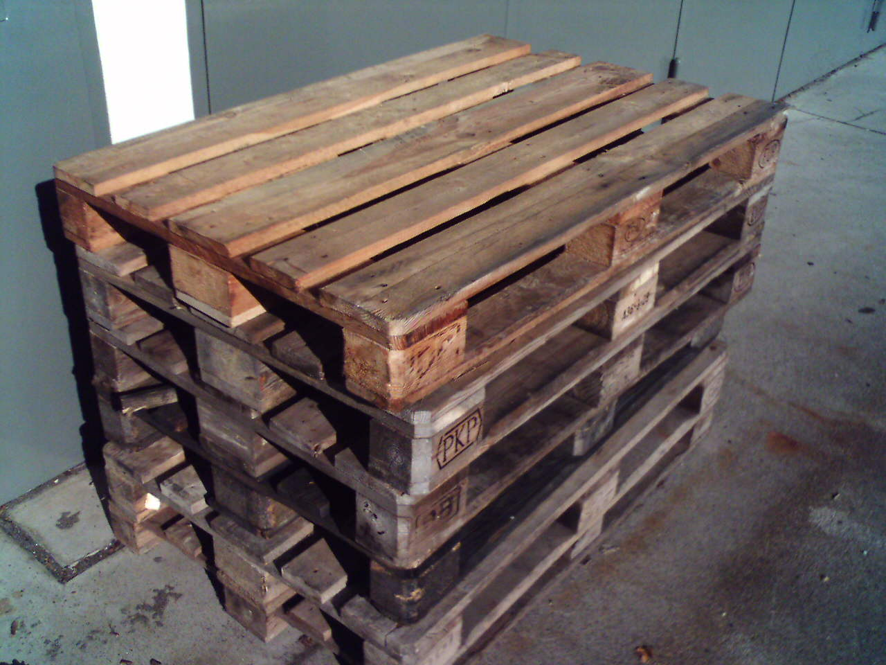 EUR pallet stack angle from the front, outside